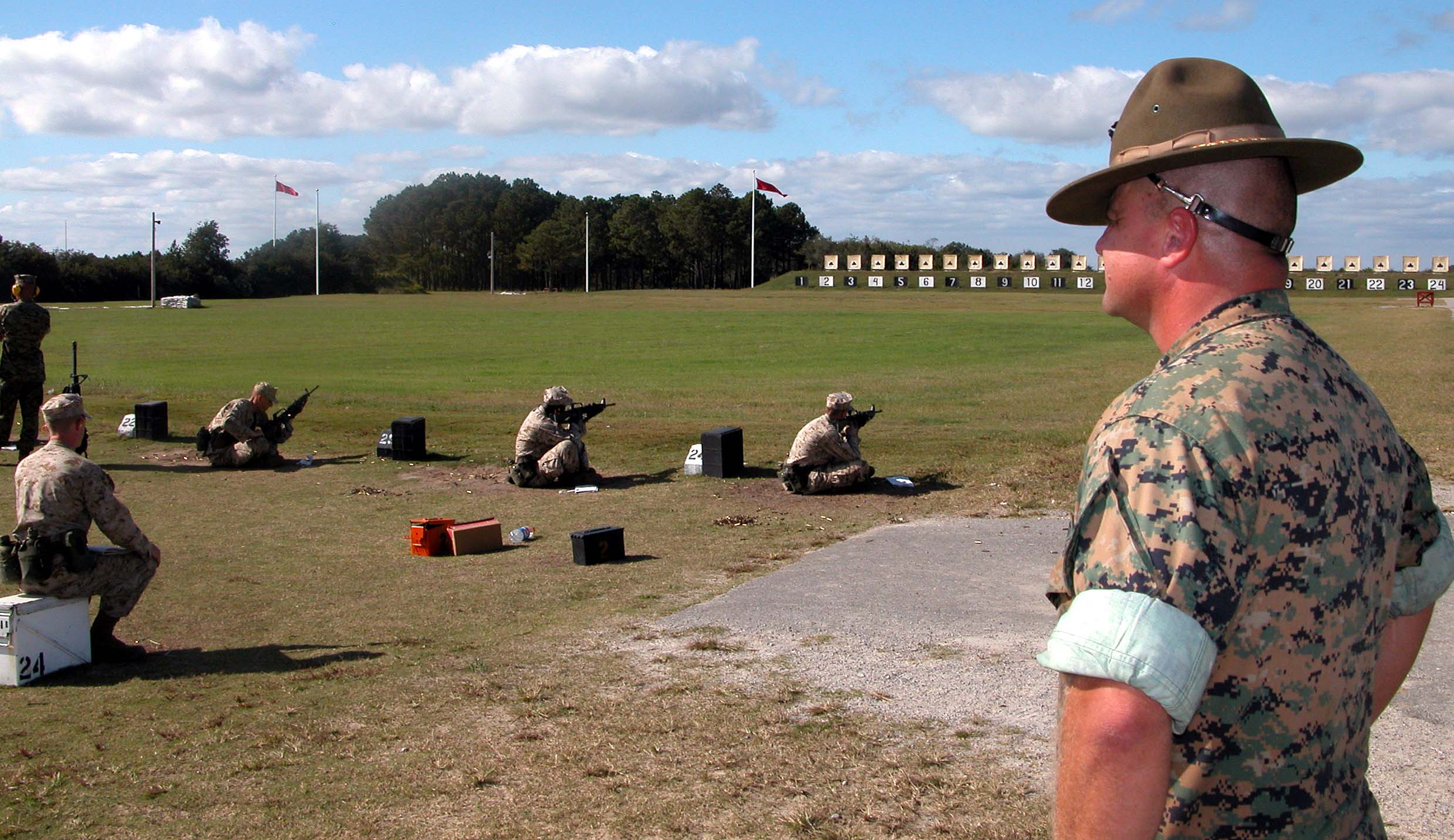 Caption: "Every Marine's a rifleman," Chief Warrant Officer Timothy Soignet remarked November 2 amid the pop and crack of scores of M16 rifles rifles firing at Chosin Range at Marine Corps Recruit Depot Parris Island, South Carolina.